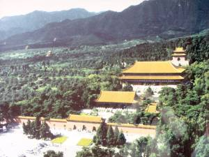 The Changling tomb. A part of the Ming Dynasty Tombs